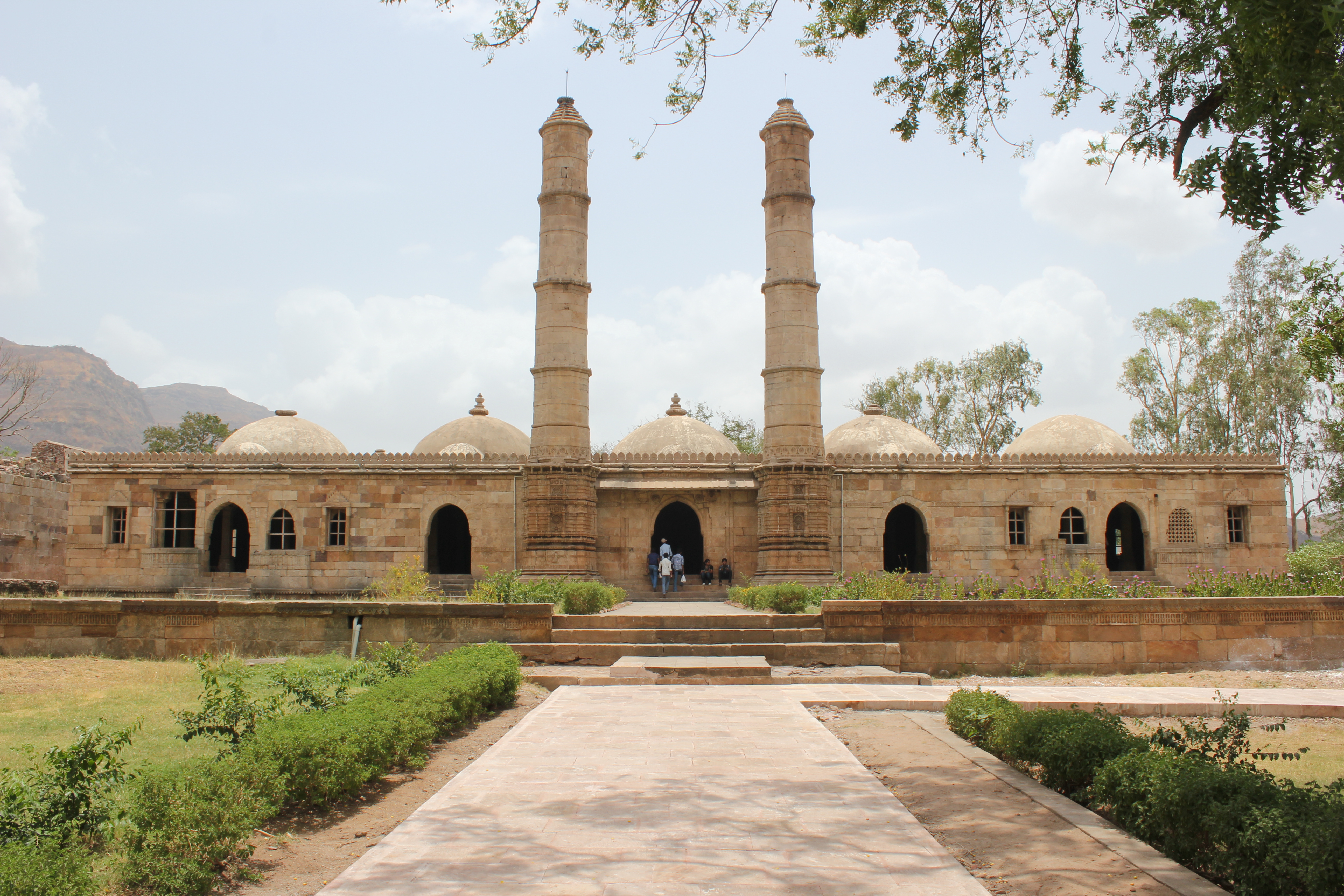 N-GJ-88